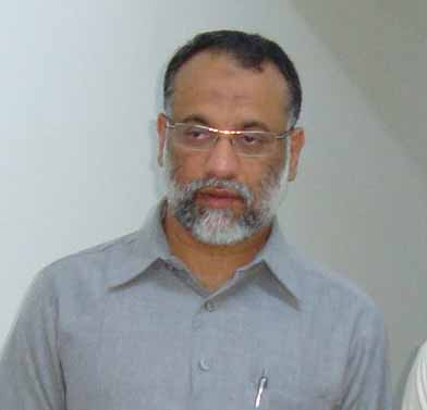 Nasarudhin